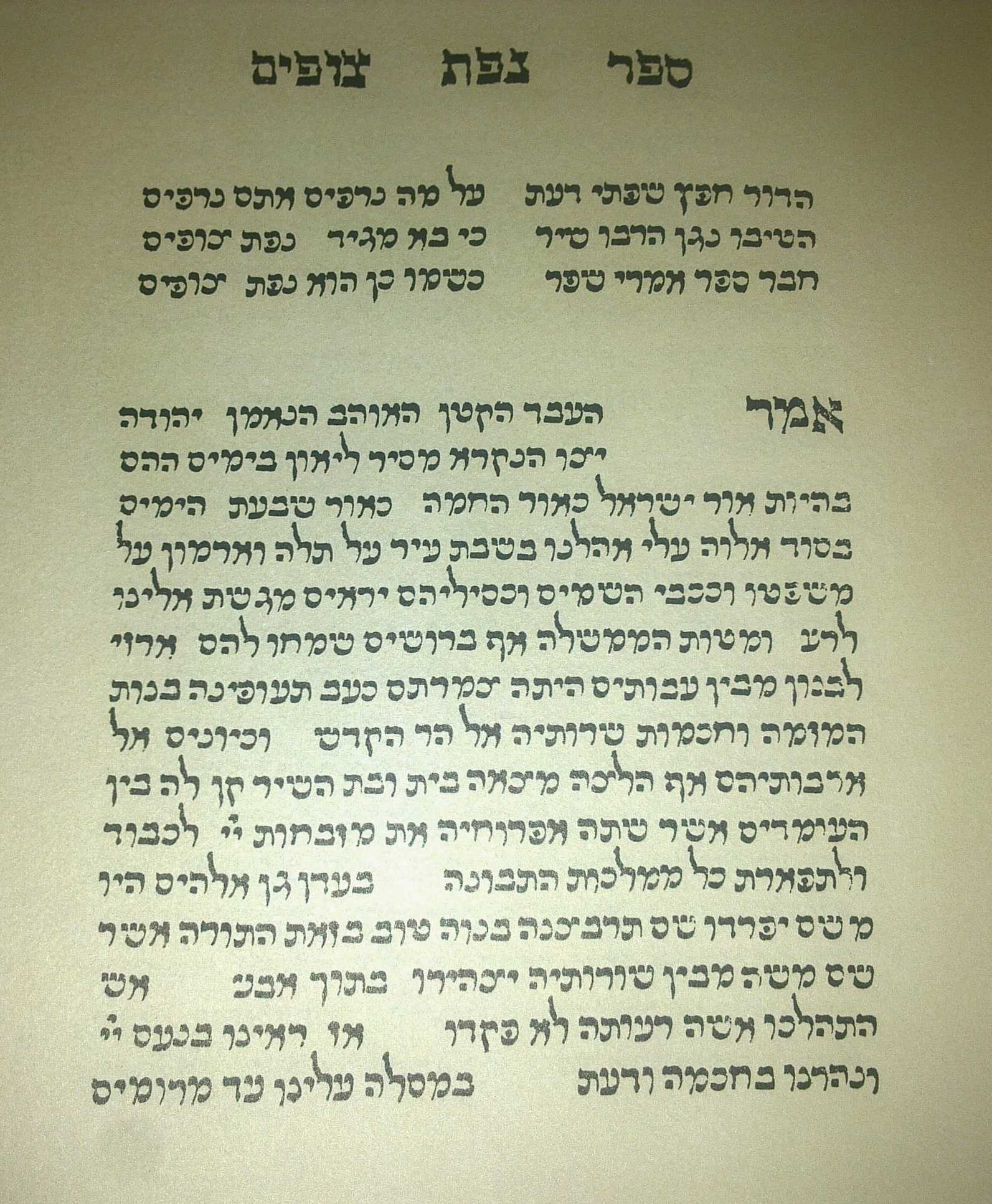 Title page of the 1490s Hebrew book printed in Italy "Noft zufim" by Rabbi Yehuda ben Yehiel Messer Leon